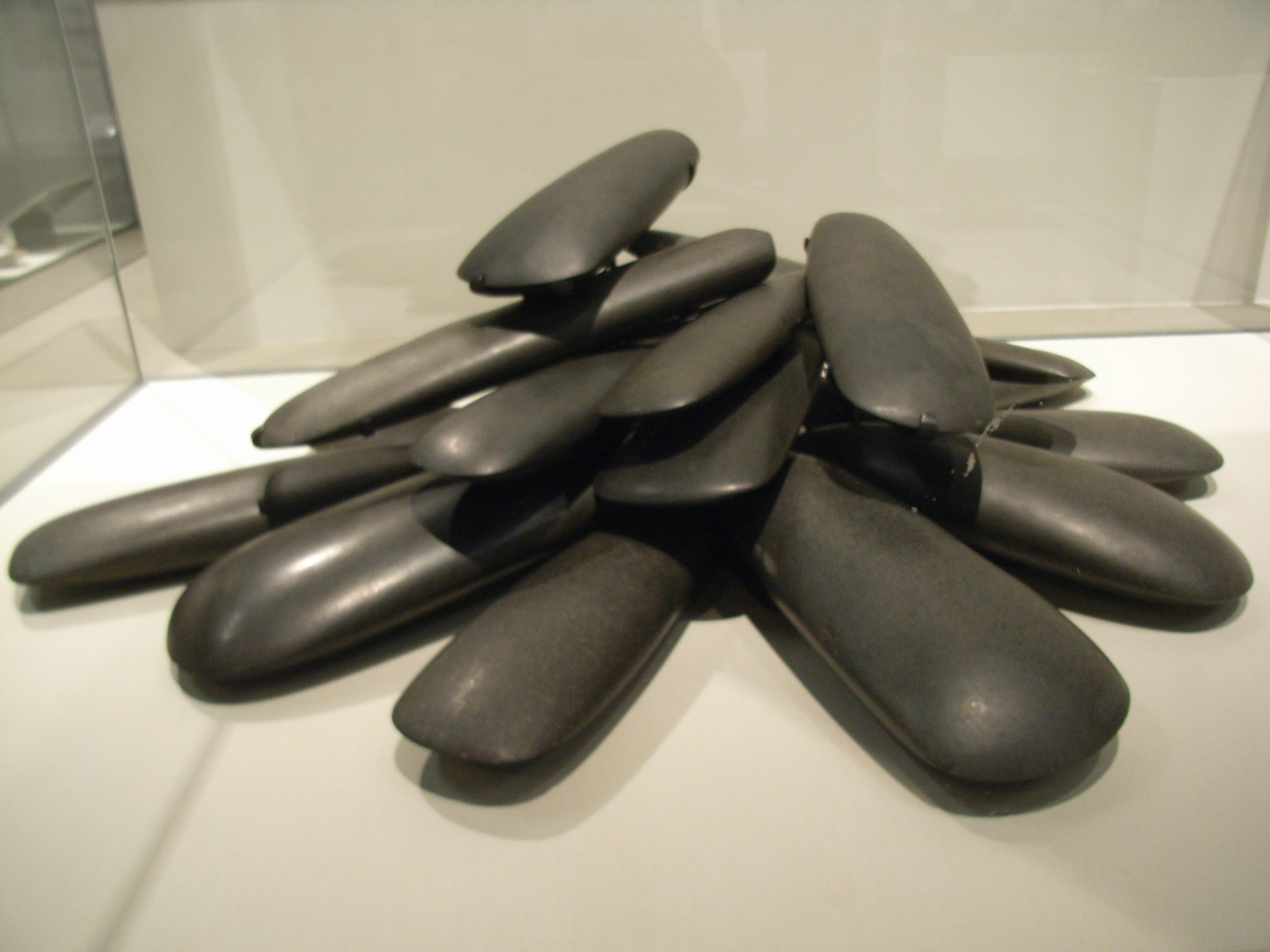 Hoard of Neolithic axes dating to 4,500-2,500 BCE, found at Danesfort, on the Malone Road, in Belfast some time between 1869 and 1918. 16 large porcellanite axes (a few very large examples too large to be used as tools). The largest axes are highly polished and unused a putative indicator of ritual deposition.When they were found during work on the land surrounding Danesfort House some were standing upright in the ground which also indicates ritual. The two main sources of porcellanite are Tievebulliagh Mountain, near Cushendall, Co. Antrim and at Brockley, on Rathlin Island, County Antrim.